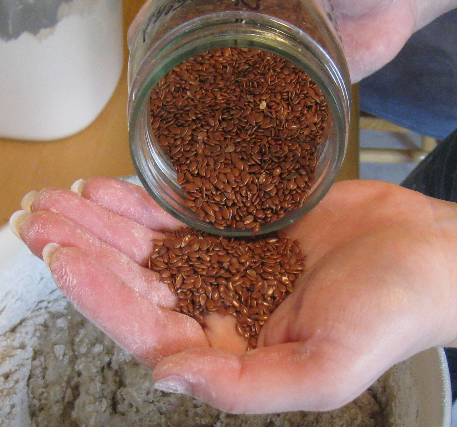 Pouring a portion of flaxseed to add to bread. Originally taken for and published in